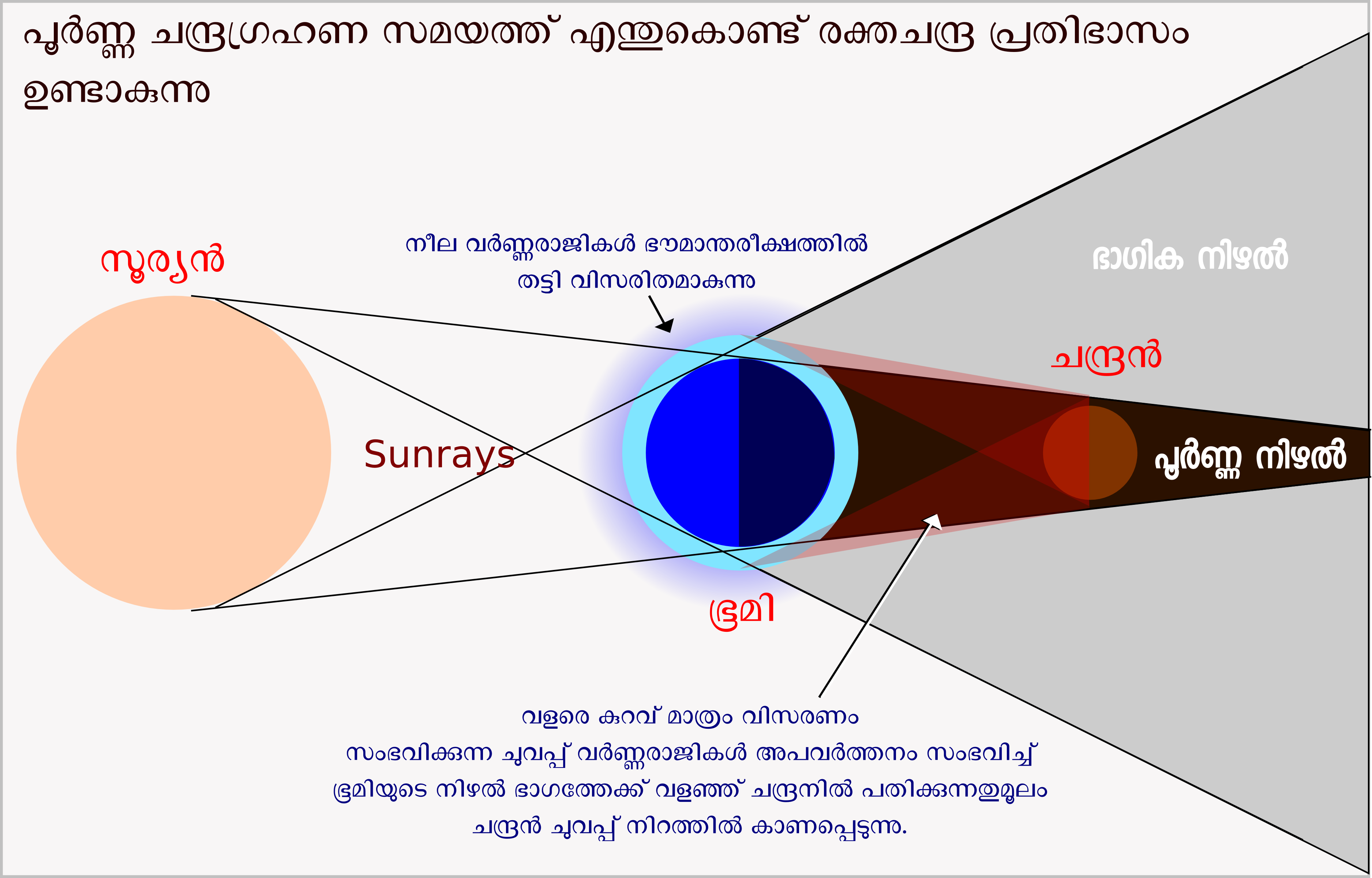 Why Blood moon happens